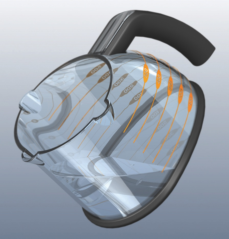 CG measuring cup produced in Cobalt